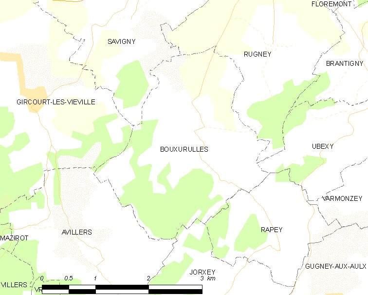 Map of French municipality Bouxurulles